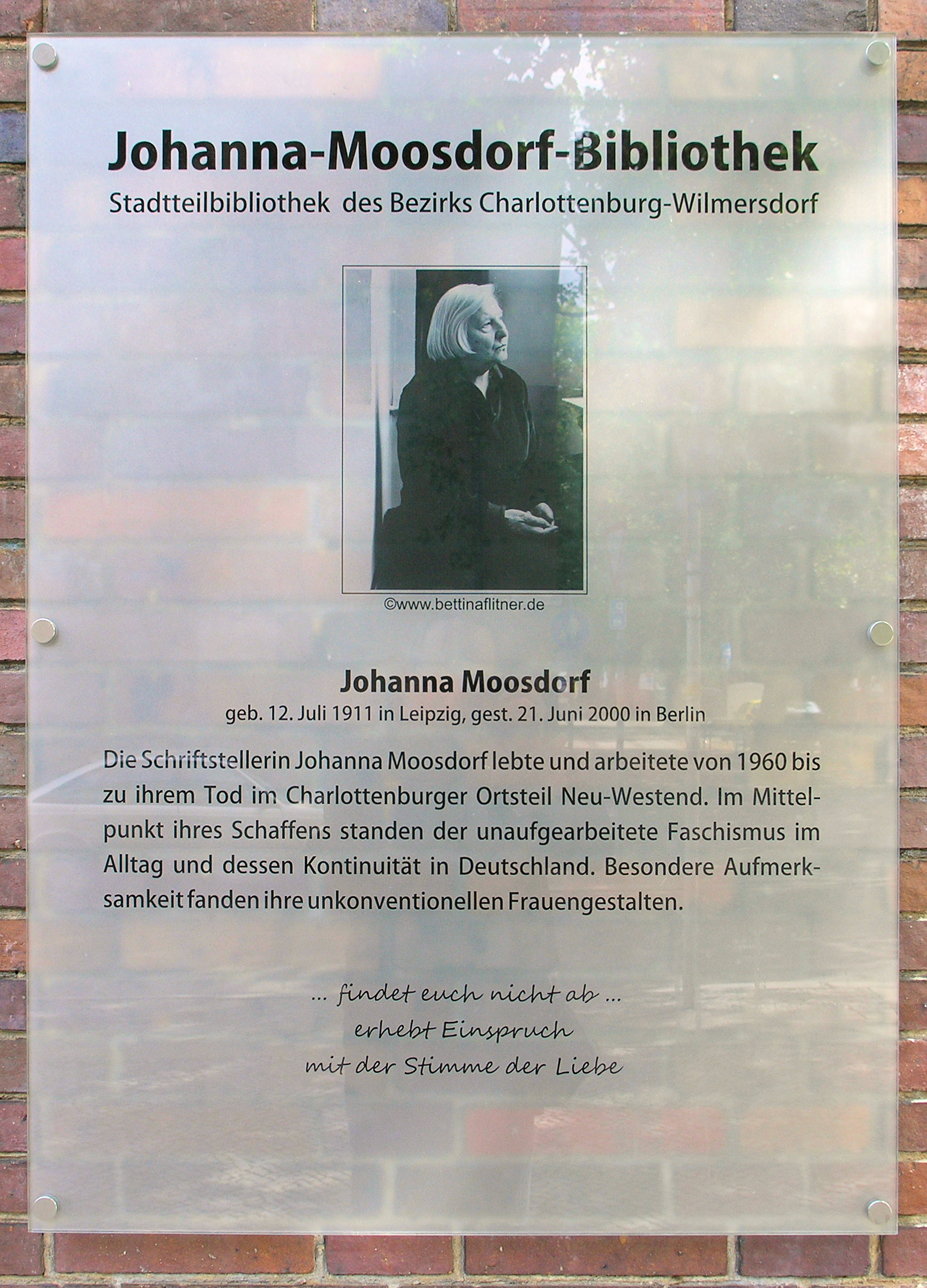 Memorial plaque, Johanna Moosdorf, Westendallee 45, Berlin-Westend, Germany